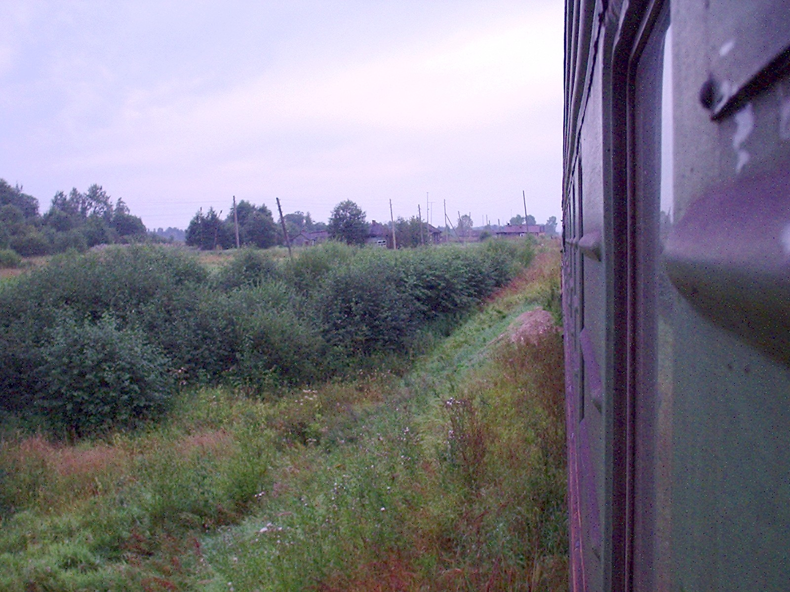 Monza, Gryazovetsky District, Vologda Oblast